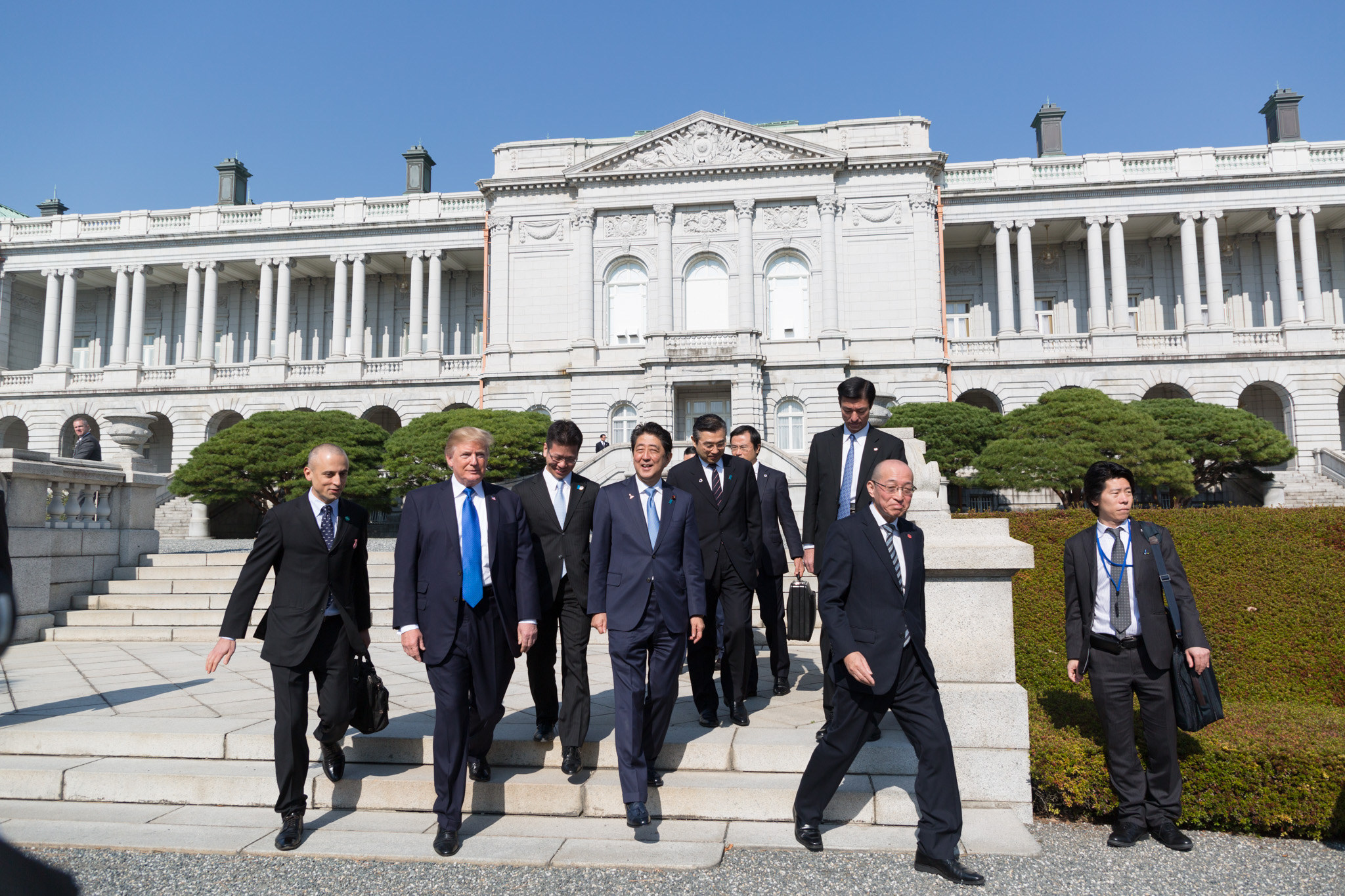 President Donald J. Trump and First Lady Melania Trump visit Japan | November 6, 2017 (Official White House Photo by Shealah Craighead)